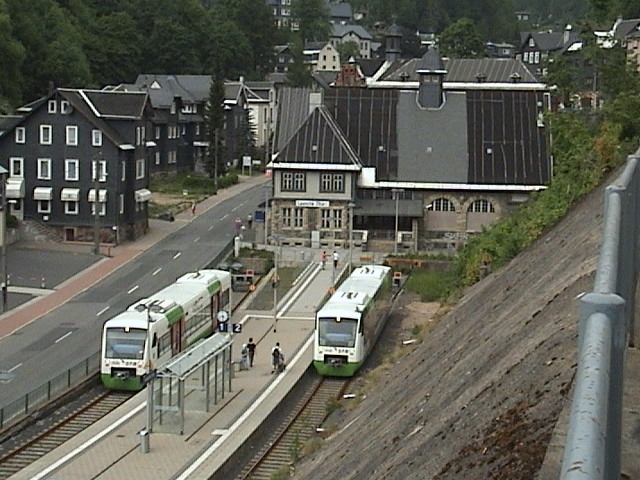 Railway station of Lauscha